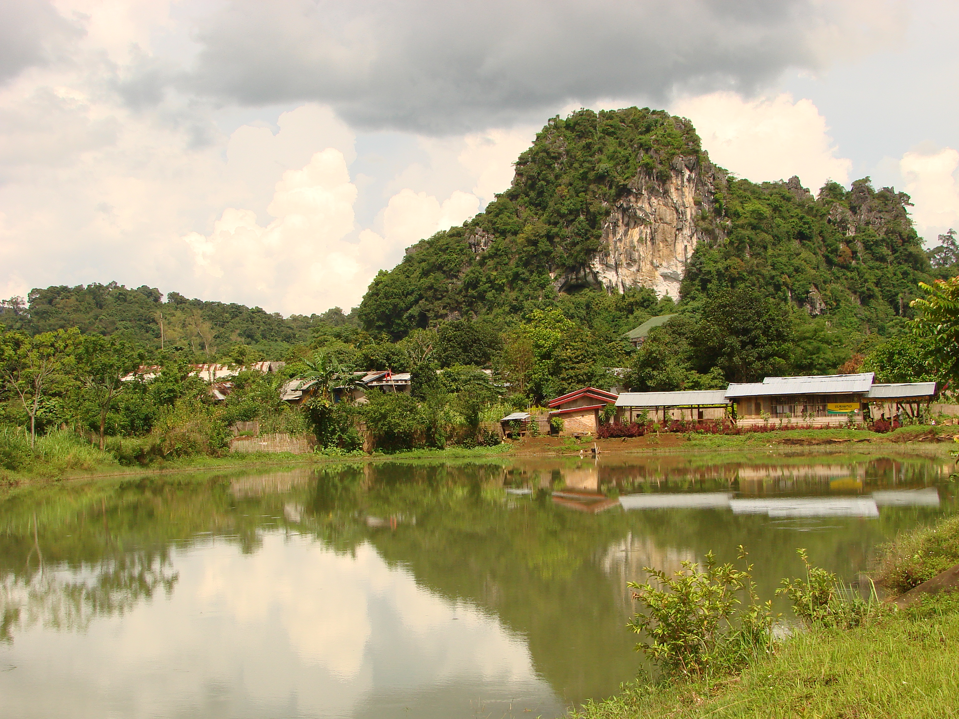 Vieng Xai, Laos. June 2009.